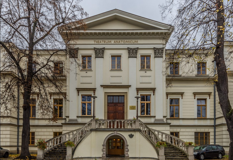 Theatrum Anatomicum, Jagiellonian University Medical College